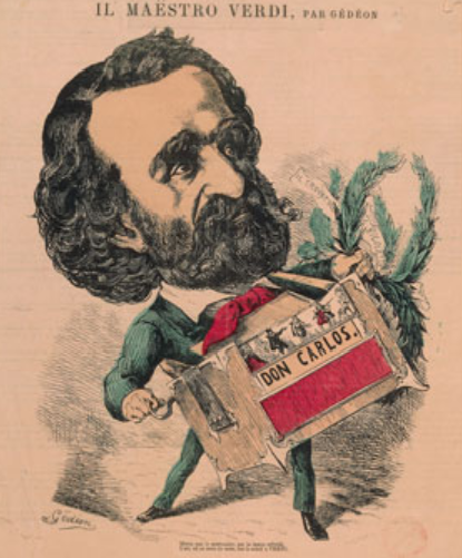 Verdi-caricature-Don Carlos-1867